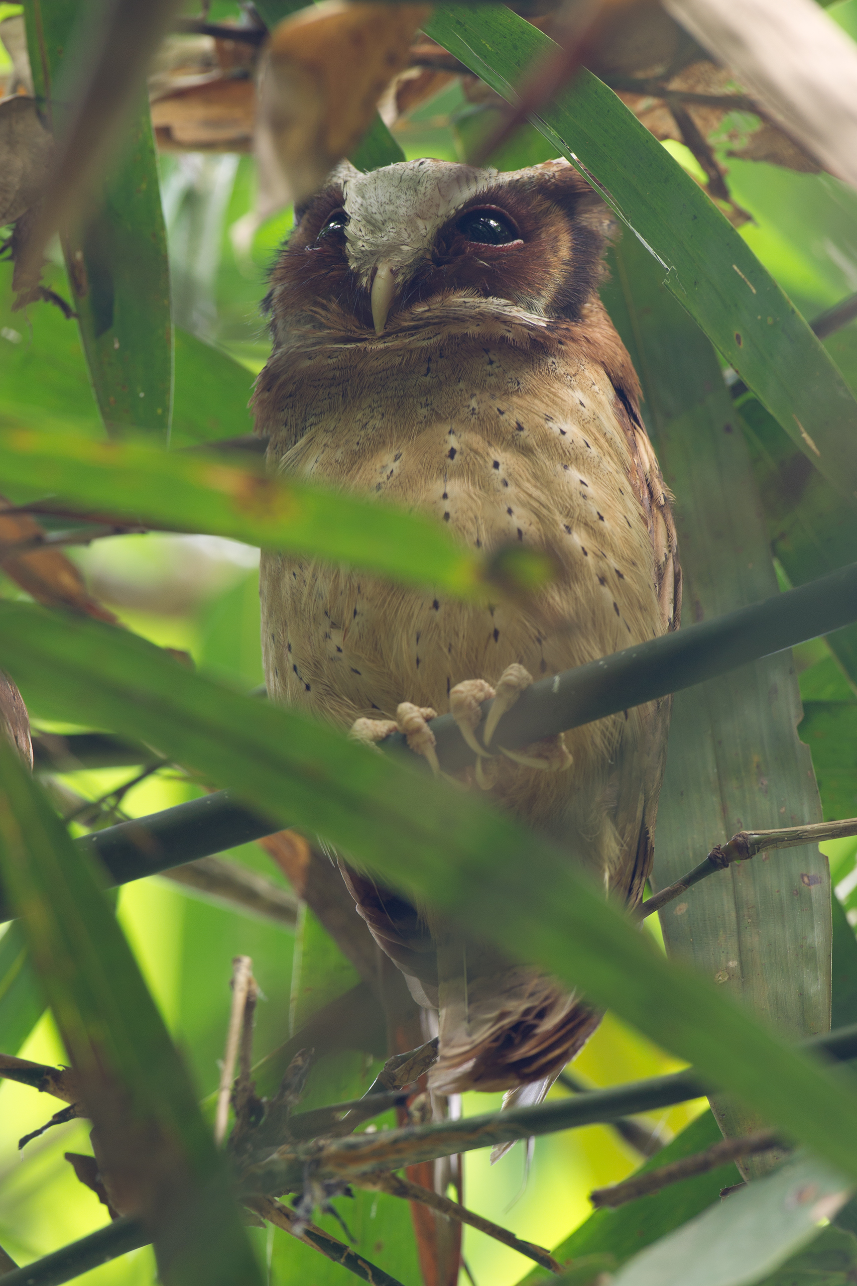 White-fronted Scops Owl Otus sagittatus, Kaeng Krachan National Park, Phetchaburi, Thailand